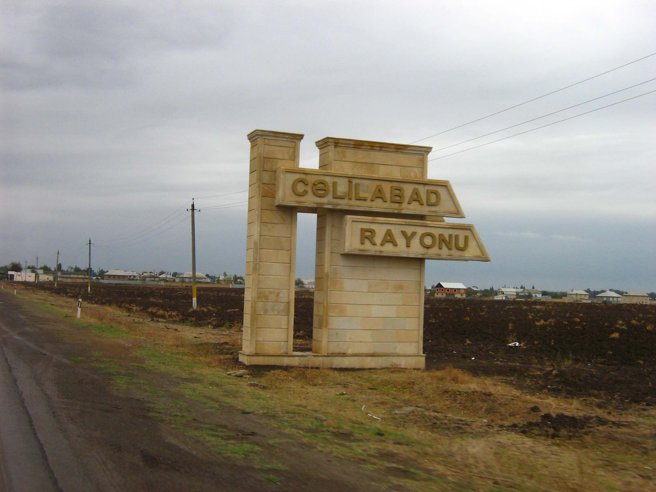 Road sign at the entrance to Jalilabad rayon, Azerbaijan